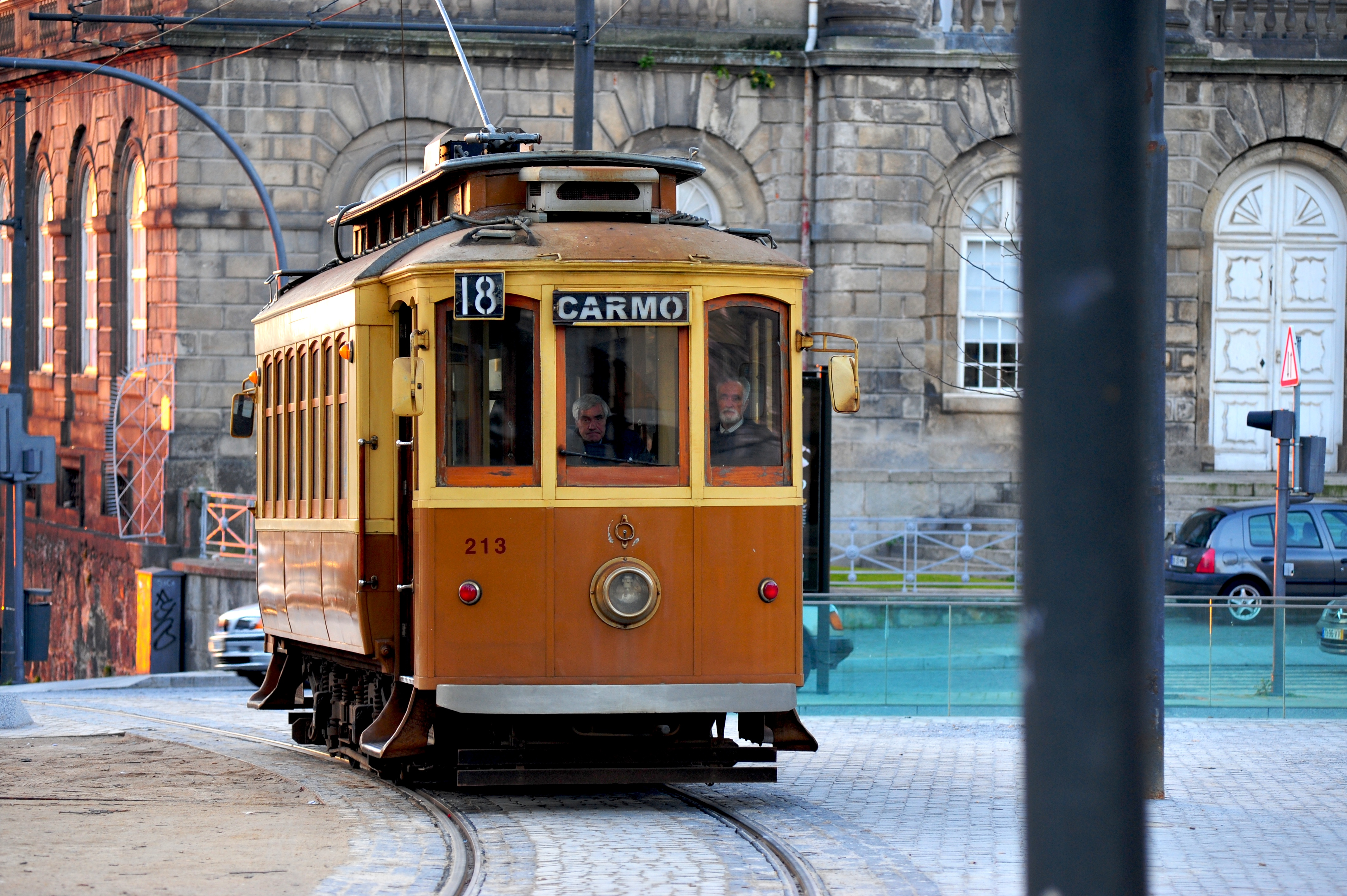 Tram in Porto.